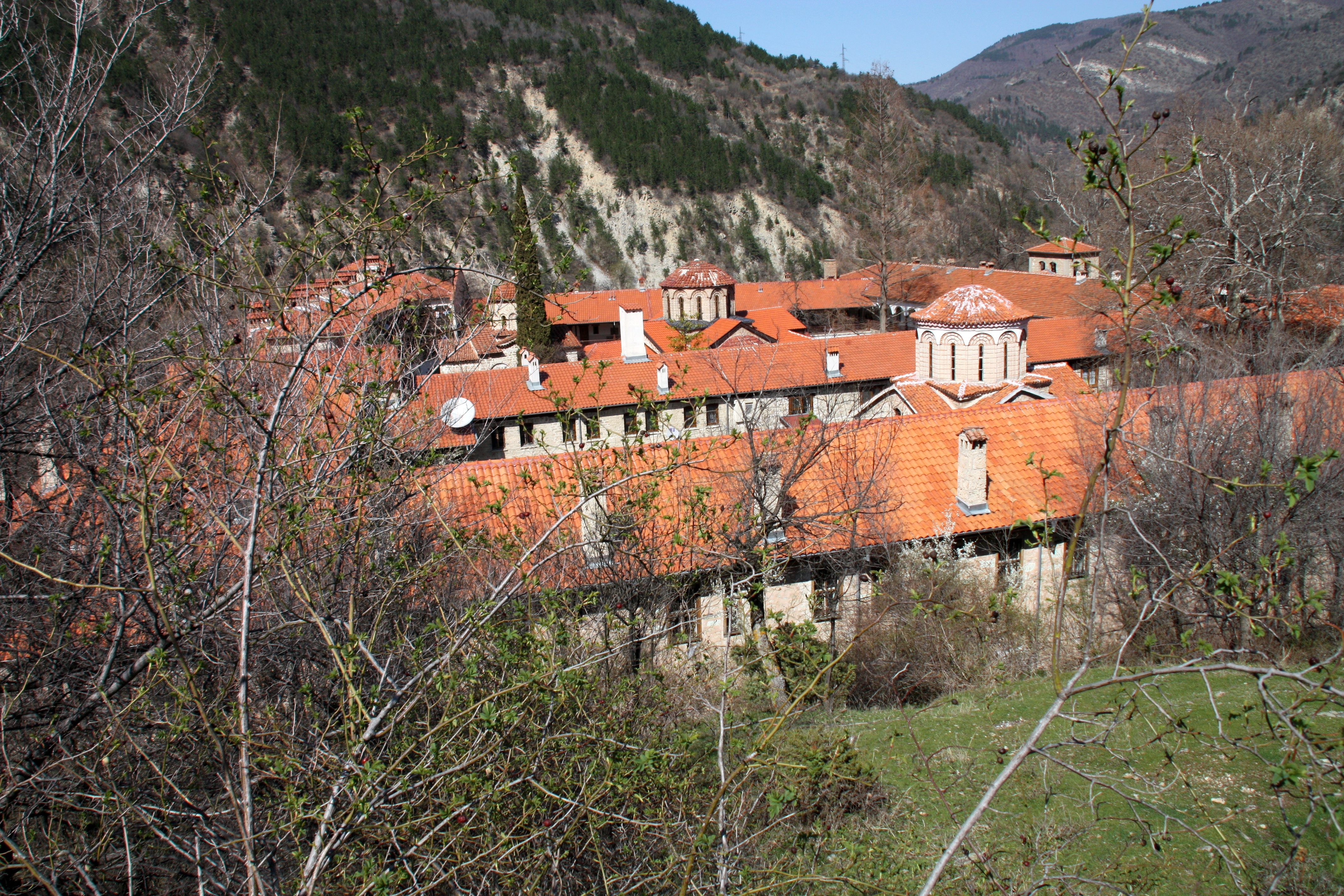 Bachkovo Monastery